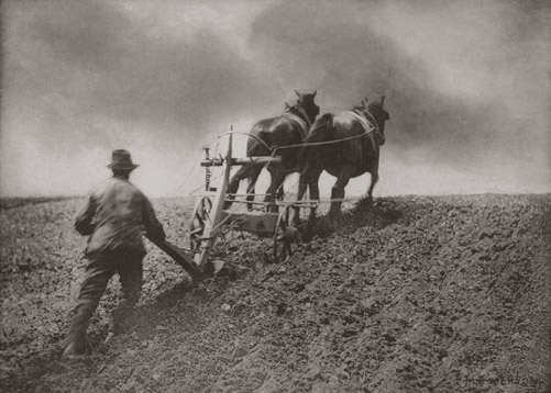 TITLE ON OBJECT: A Stiff Pull